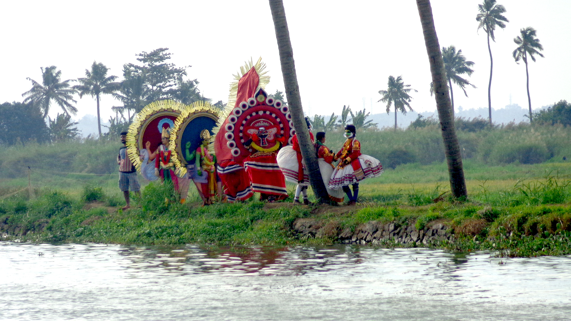 Kerala ImagesKerala Images